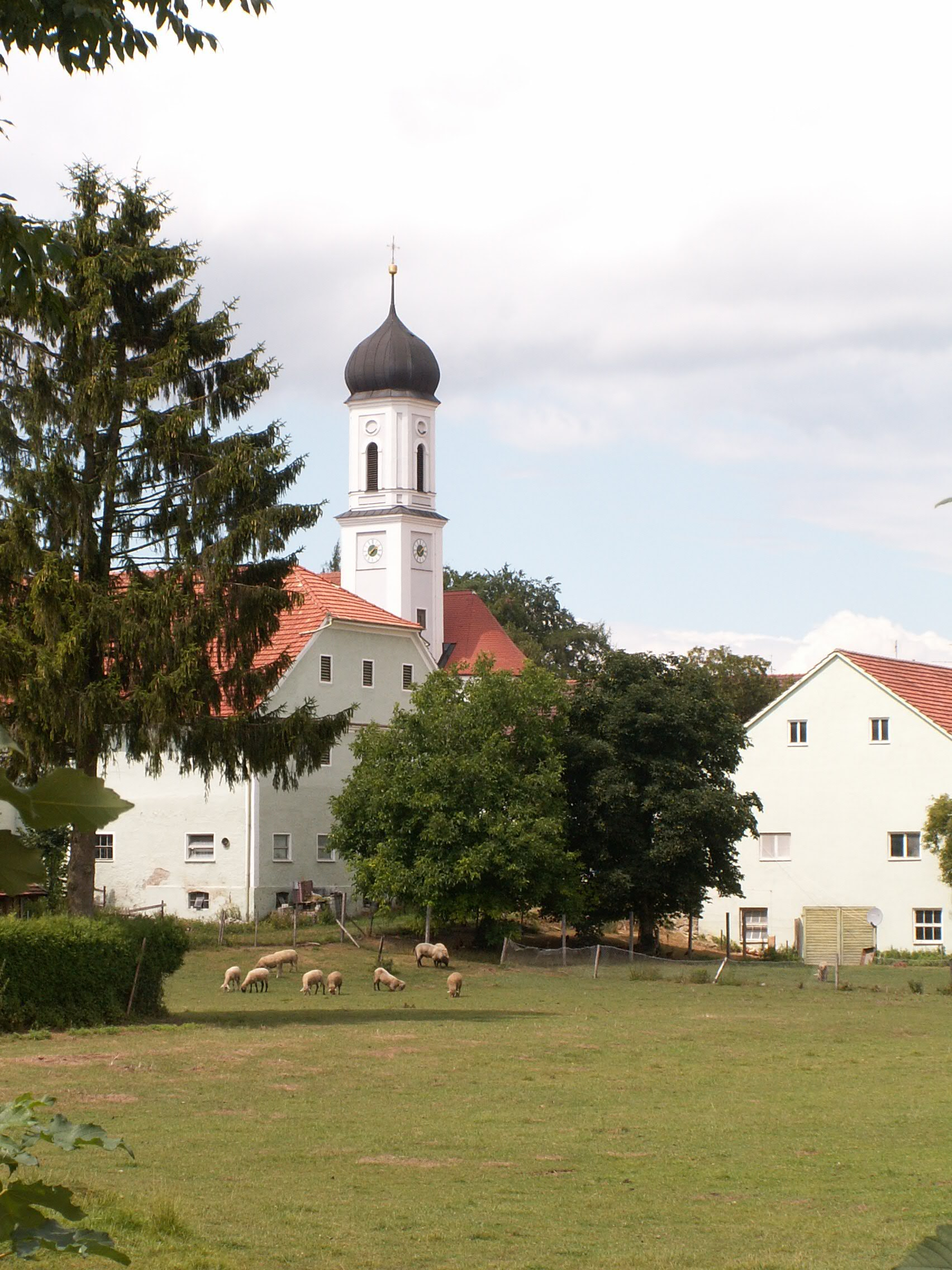 Steindorf von Südosten